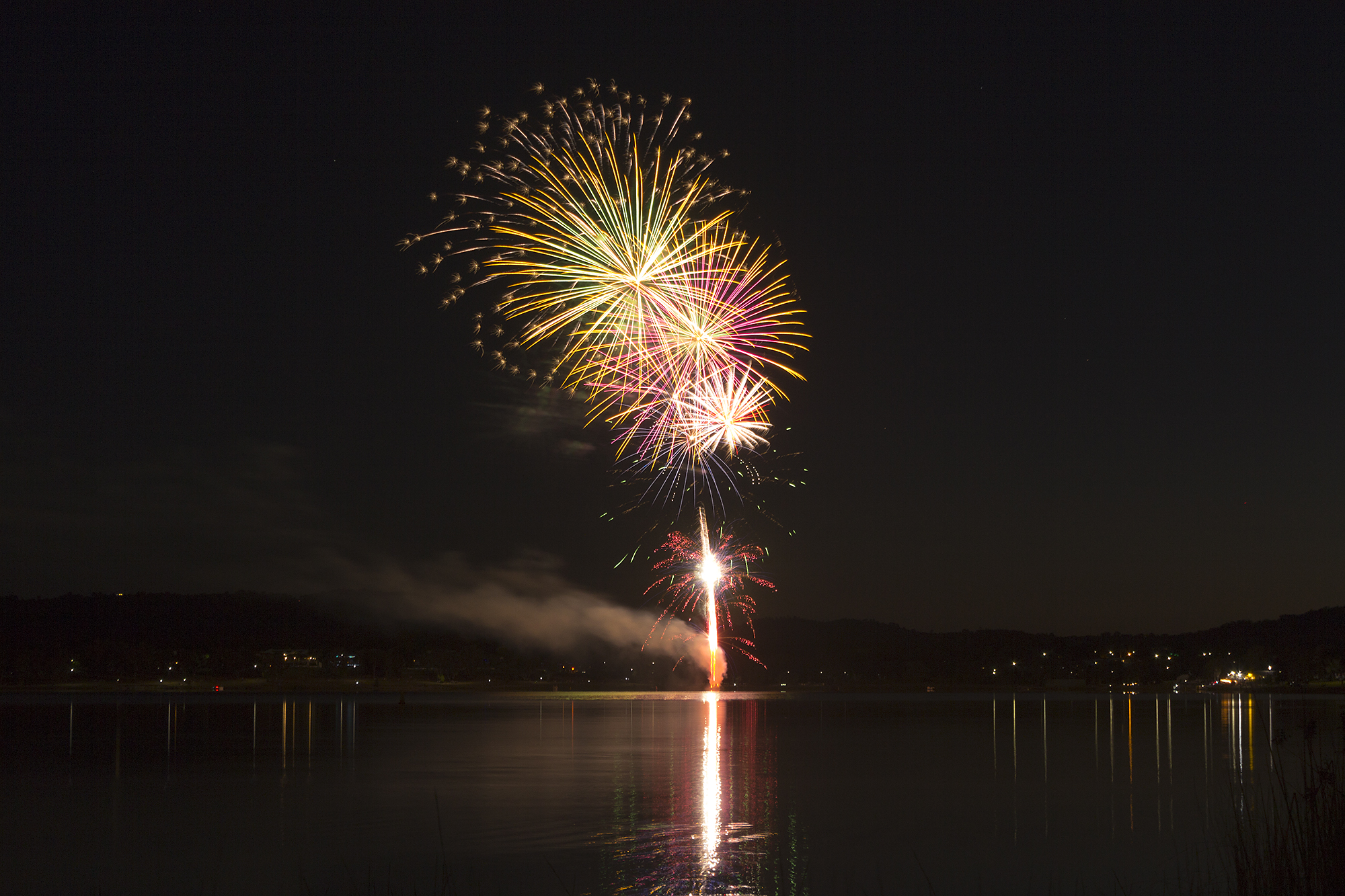 Wagga Skyworks 9:30pm NYE fireworks display at Lake Albert, New Year's Eve 2017 in Wagga Wagga (Australia), early begin of New Year 2018 (1 January 2018).